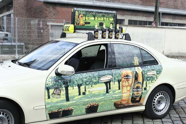 Taxi-advertising: Example DoorCover and Taxi Top Advertising